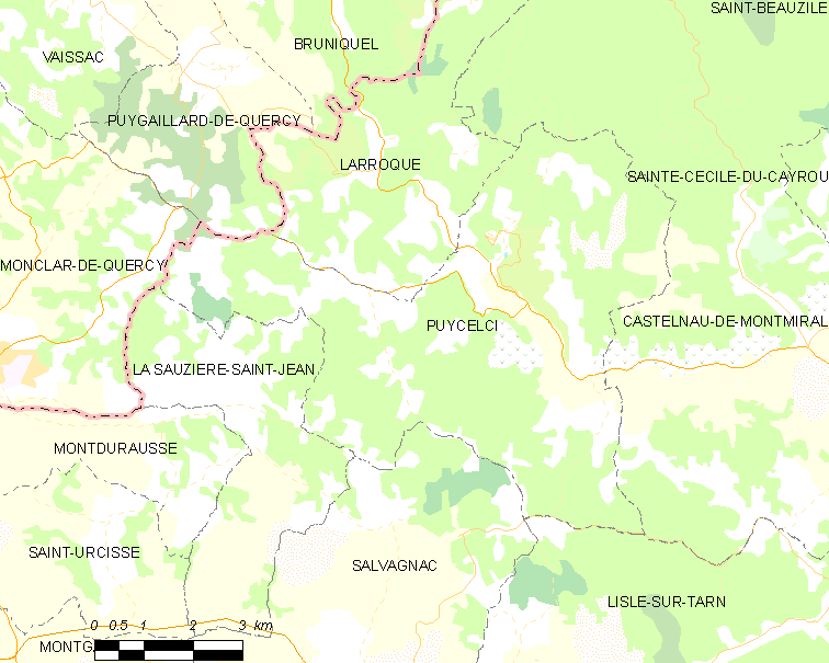 Map of French municipality Puycelci